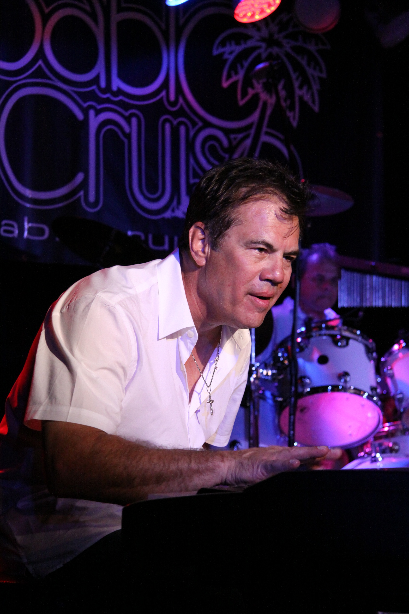 Cory Lerios, founding pianist/songwriter of Pablo Cruise. The Blue Goose, Loomis, California. July 10, 2009